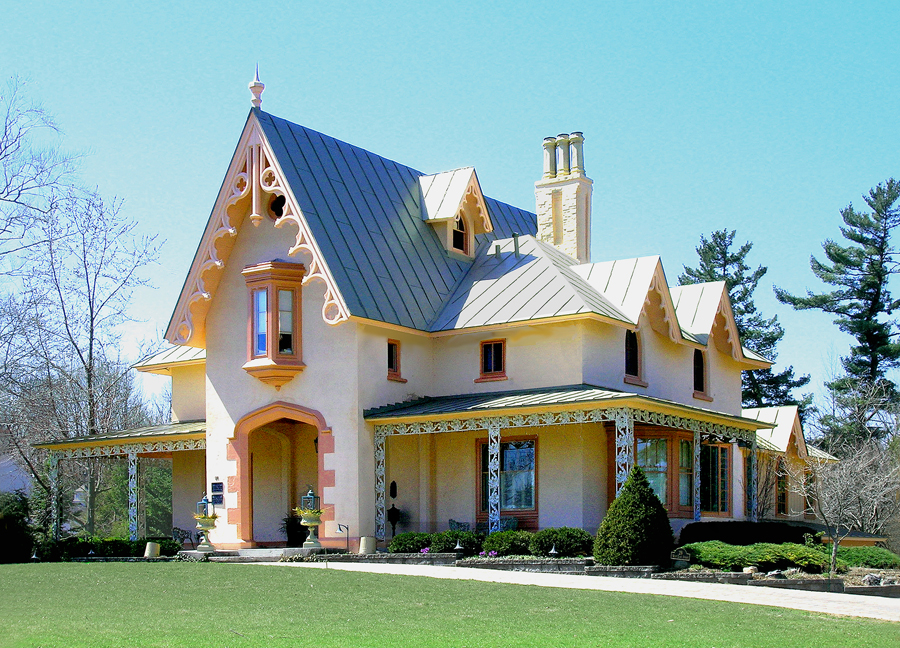 Paul Malo photograph